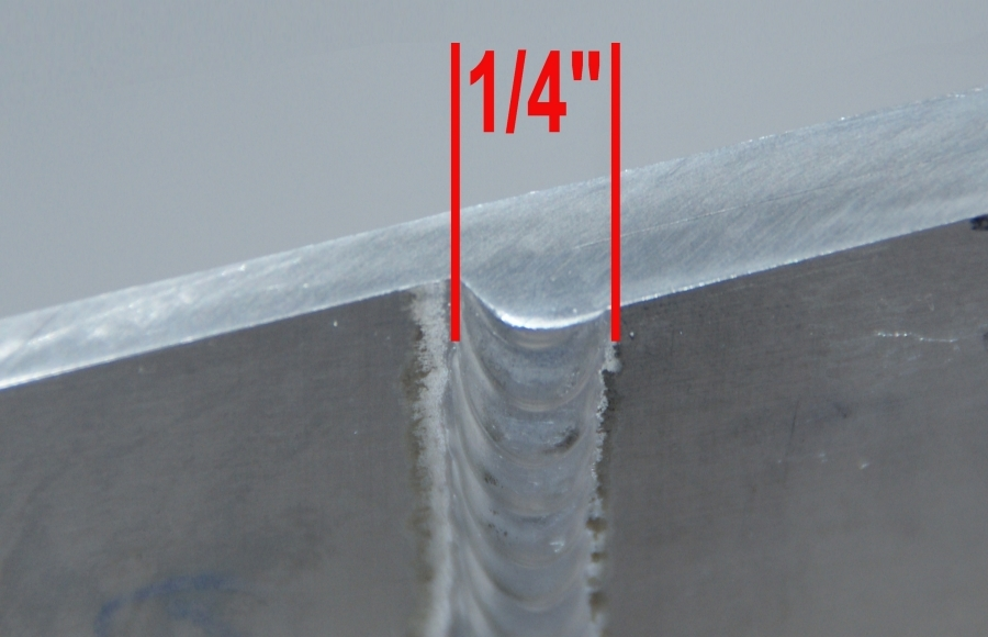 View of 1/4 inch weld on a fuel tank